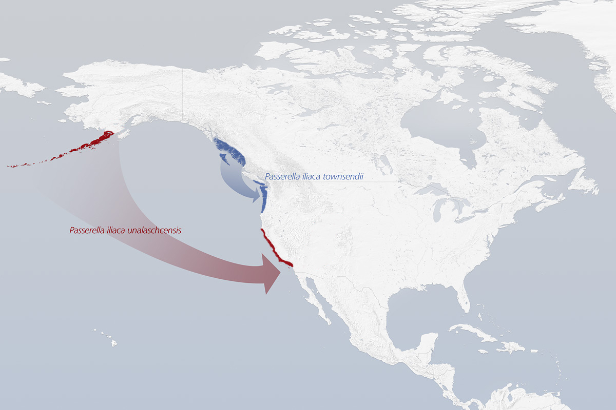 Leapfrog migration pattern of two subspecies of the Fox Sparrow Passerella iliaca, P. i. townsendi and P. i. unalaschensis